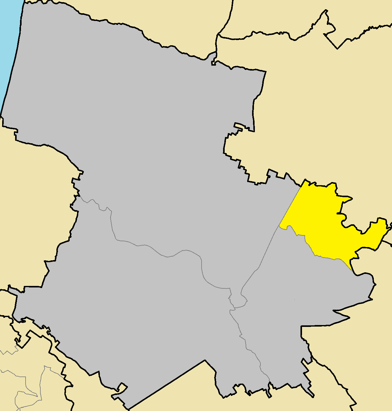 Chrysiliou in Morphou Municipality (de jure).